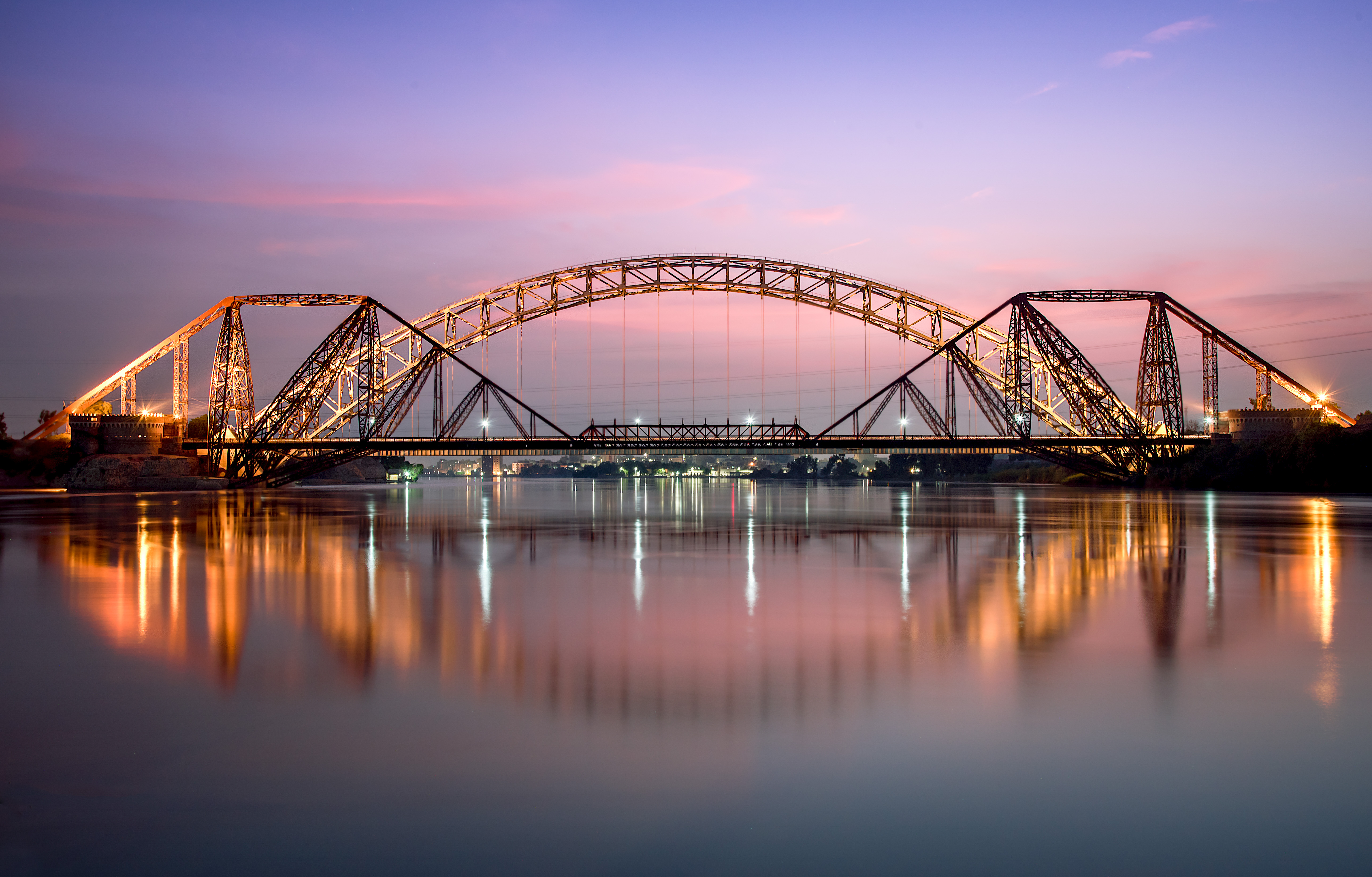 The View of Iconic Landsdowne Bridge in Sukkur This is a photo of a monument in Pakistan identified as the SD-55.5